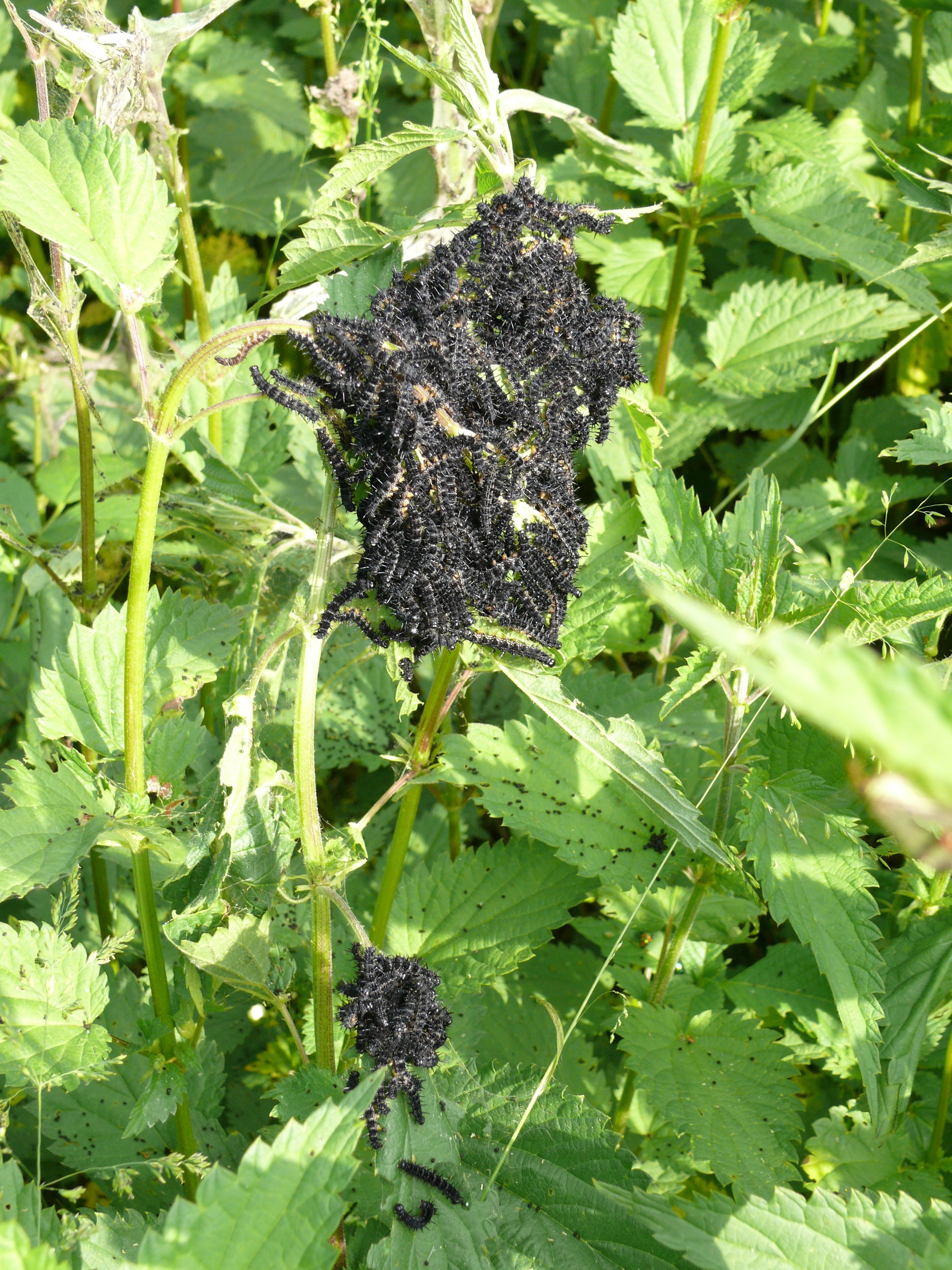 Nymphalis io